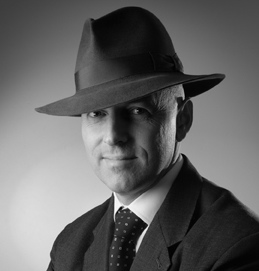 Artist Alan Reed wearing a hat